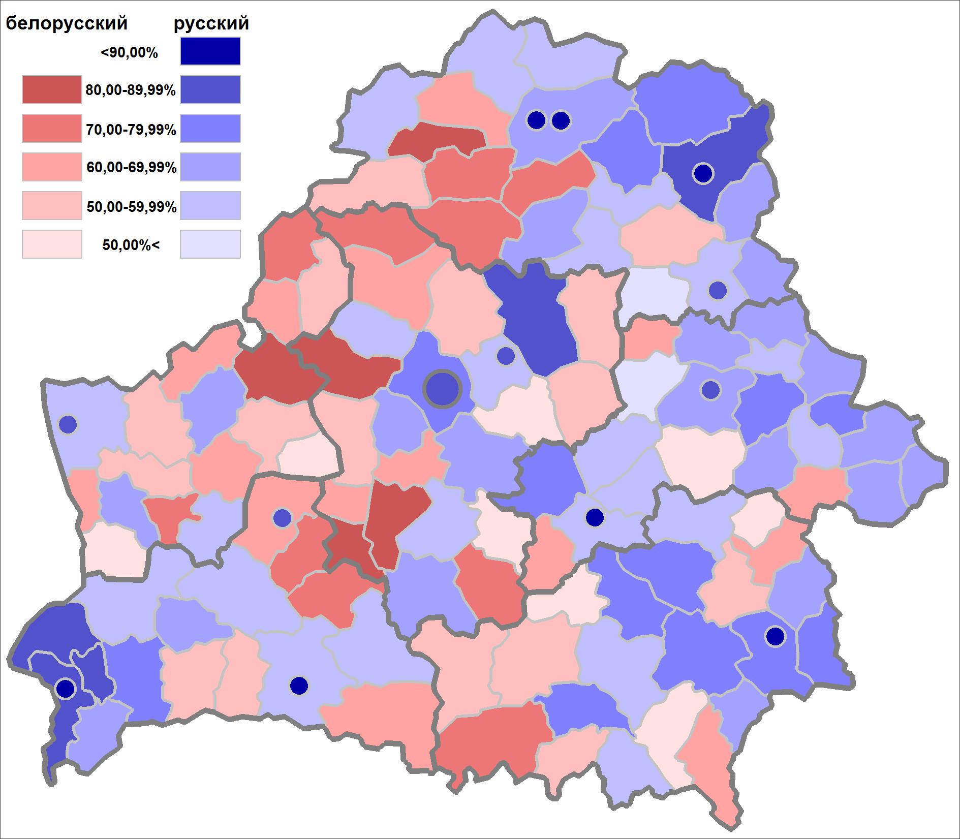 Belarus National Census 2009 languages spoken at home share: Belarusian (red) and Russian (blue)